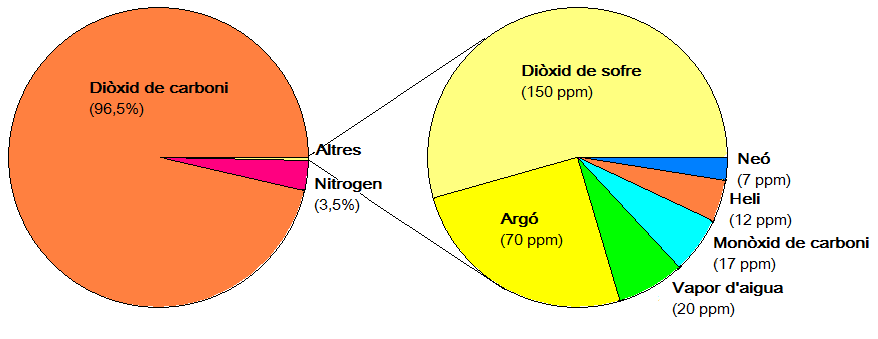 Pie chart of the atmosphere of Venus. Second pie chart is an expanded version of the trace elements that don't fit into the first one. Catalan version